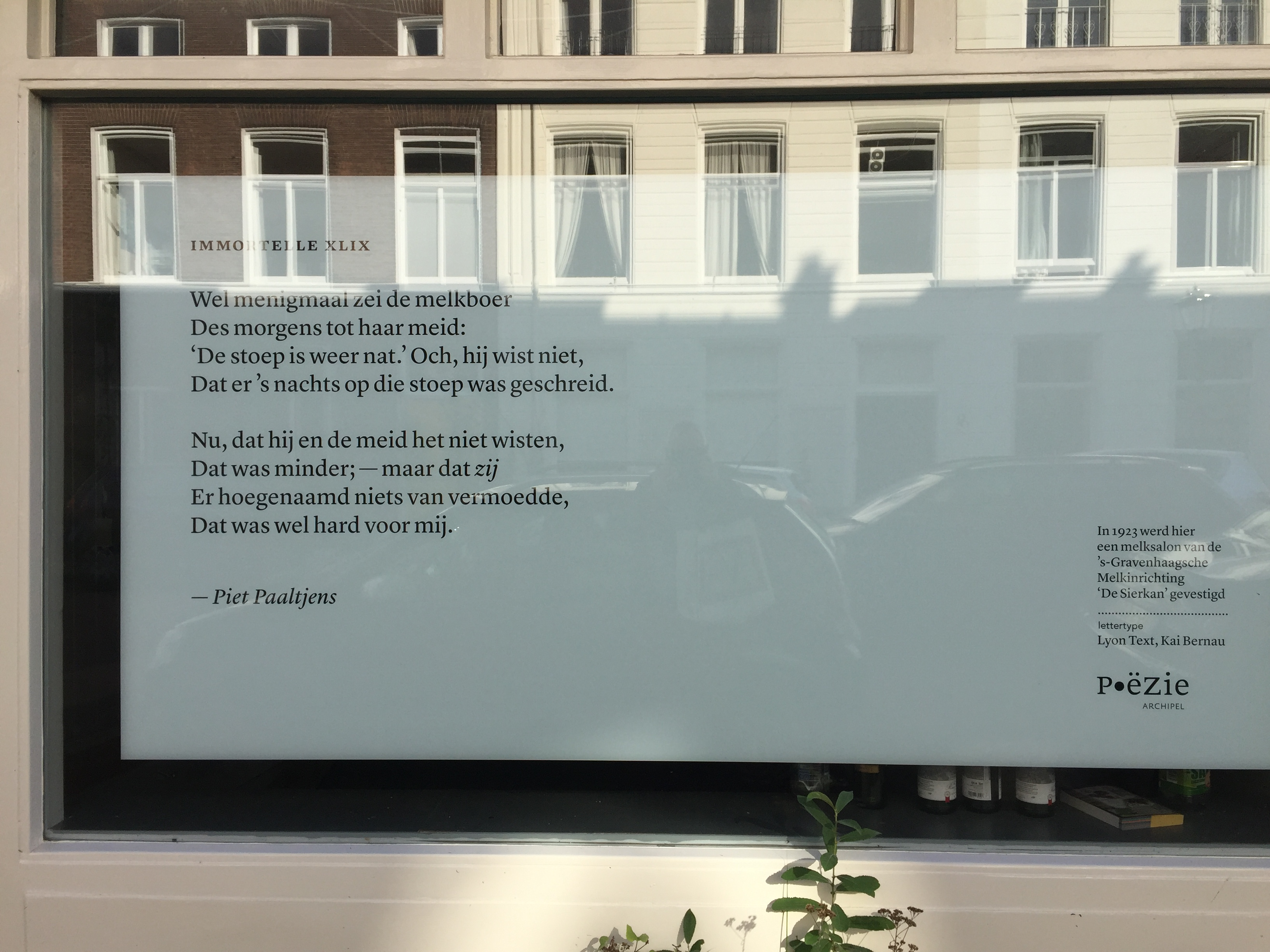 Poem 'Immortelle XLIX', Atjehstraat 13 in The Hague